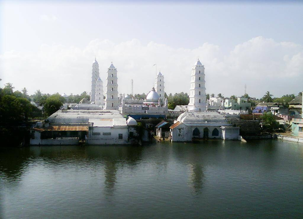 A complete view of Nagore Dargah; Dome, Sacred tank, 5 Minarets and surrounding. The dargah is located in Tamilnadu, India.